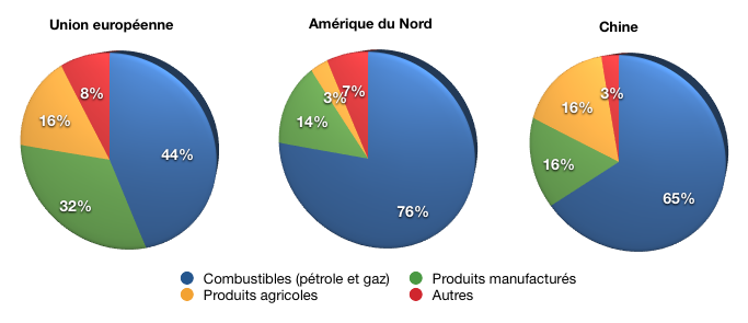 African exports by sector, 2004.